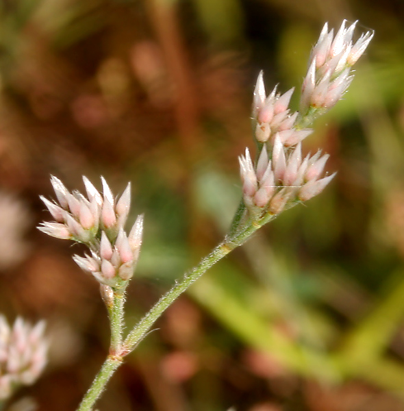 Polycarpaea corymbosa (Synonyms: Achyranthes corymbosa, Polycarpaea nebulosa)- Oldman's Cap • Hindi: Bugyale • Marathi: Koyap, Maitosin • Tamil: Nilaisedachi, Cataicciver, Pallippuntu • Malayalam: Katu-mailosina • Telugu: Bommasari, Rajuma • Kannada: paade mullu gida, poude mullu, poude mullu gida • Sanskrit: Bhisatta, Okharadi, Parpata, Tadagamritikodbhava- in Herbal Garden, in Rangareddy district of Andhra Pradesh, India.